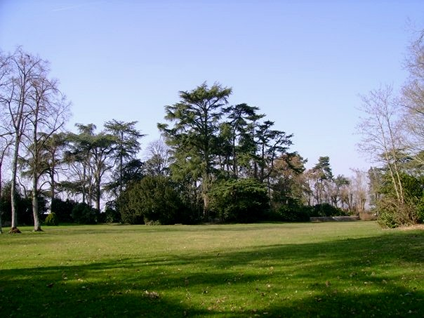 Public Park in Candé, Maine-et-Loire, France